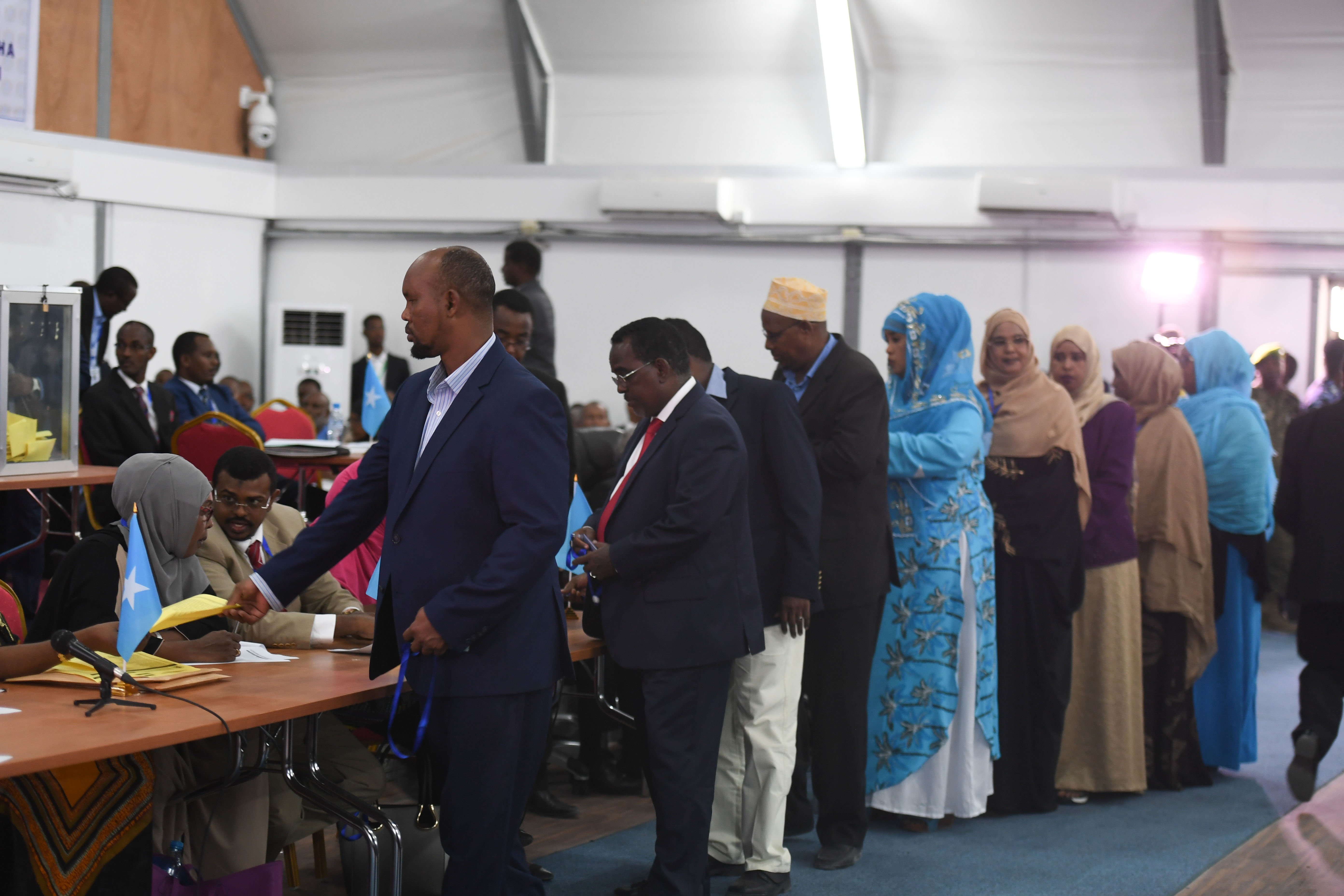 Members of Parliament from the Federal parliament queue to cast their ballots for round two during the presidential election held at the Mogadishu Airport hangar on February 8, 2017. Mohamed Abdullahi Farmajo was elected the new president of Somalia. AMISOM Photo/ Ilyas Ahmed.